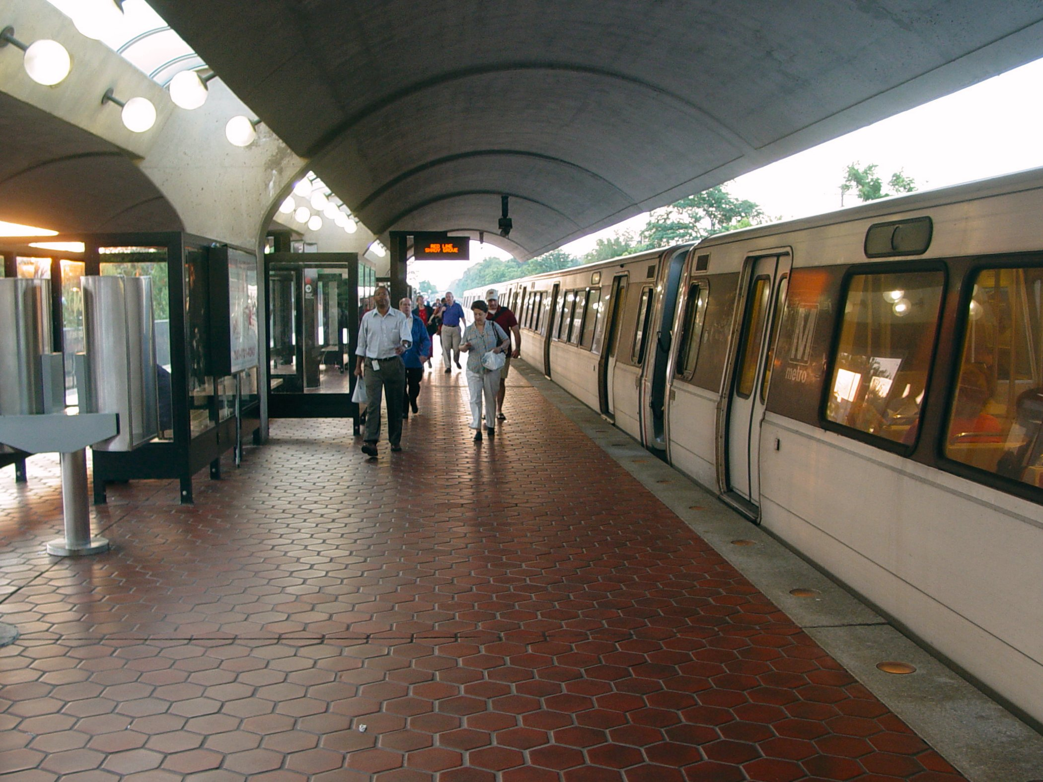 Twinbrook Metro station